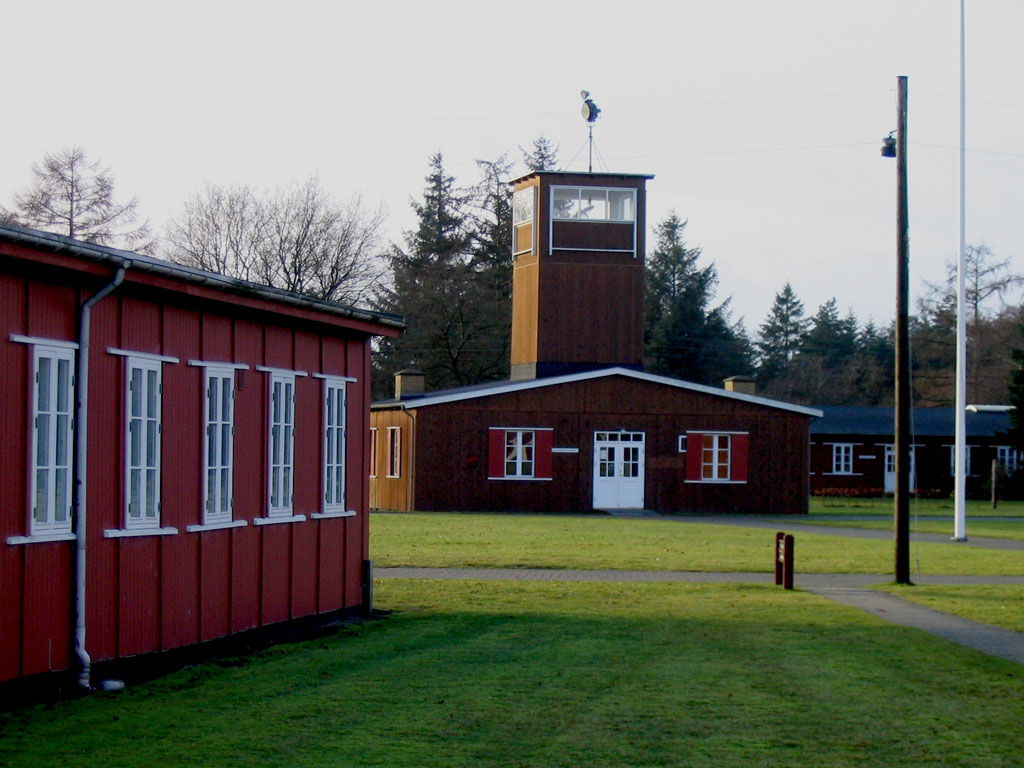 Frøslev Camp build by the Germans (Nazi) in Denmark during World War II. From this camp prisoners were send to the KZ camps in the rest of Europe. Guard tower and barrack.